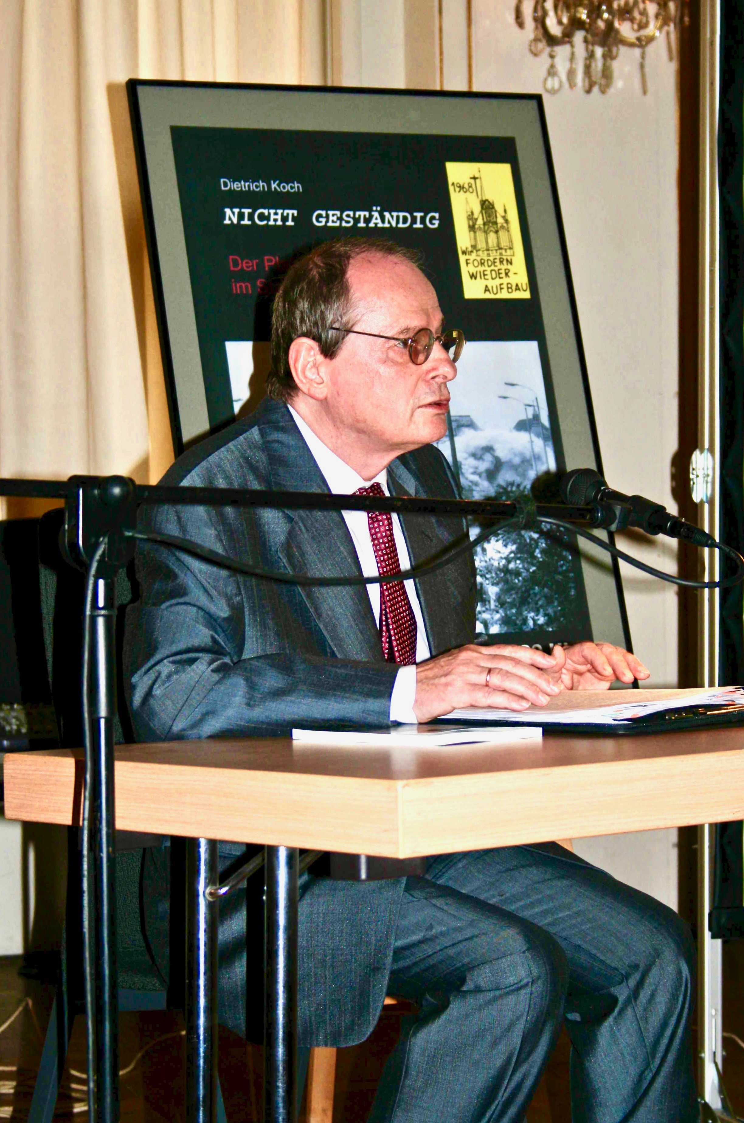 The German physicist, philosopher and author Dr. Dietrich Koch (1937–2020) during an oratory hosted by Stadtgeschichtliches Museum Leipzig (Historical Museum Leipzig) in the Alte Handelsbörse (Old Stock Exchange) of Leipzig in May 2008